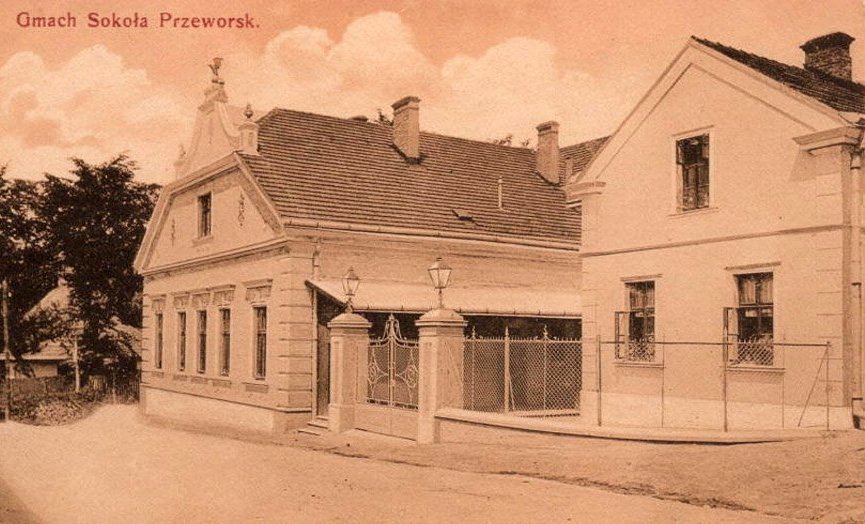 Building of "Sokół" Society in Przeworsk